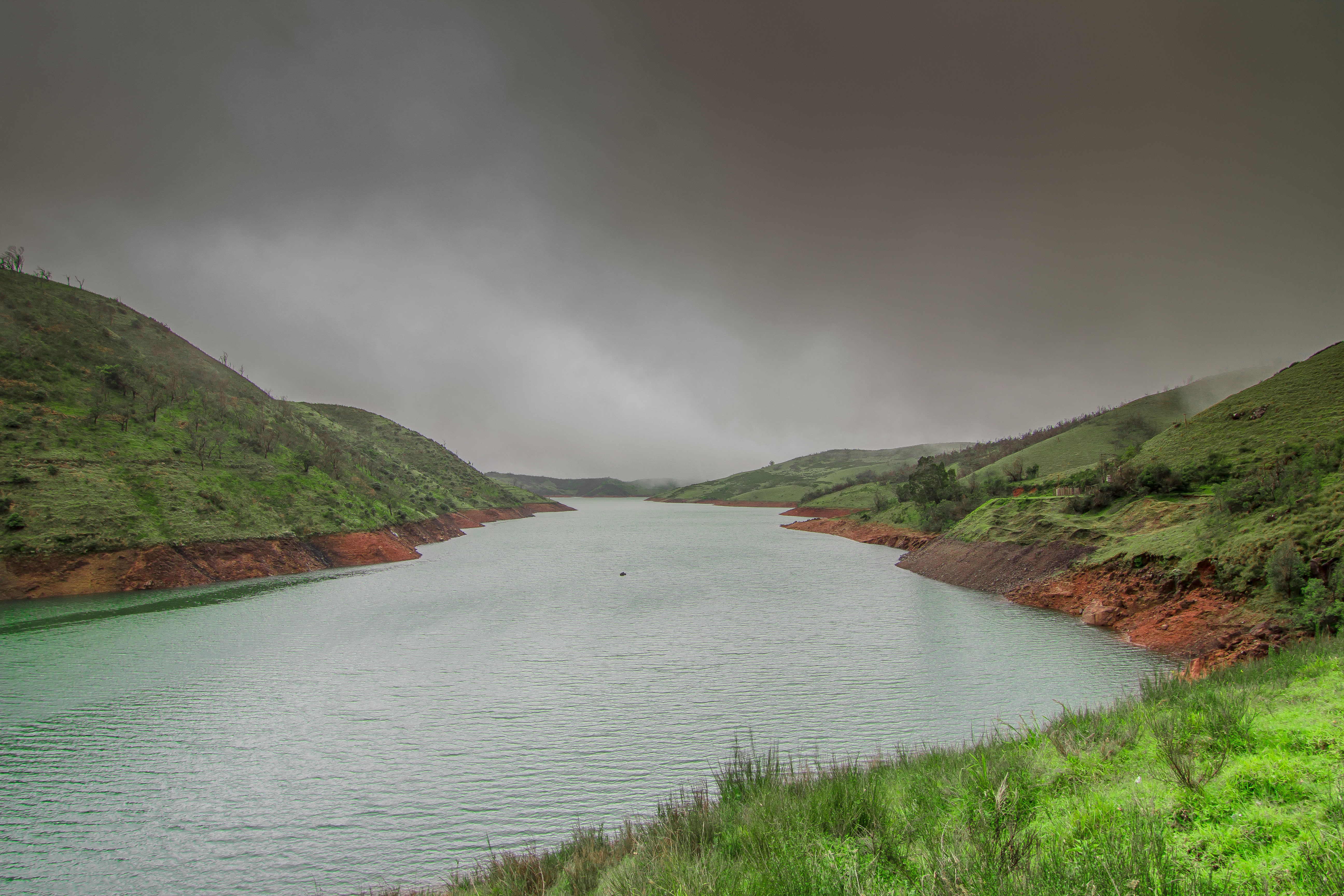 Breathtaking view of Upper Bhavani from its Northern end, This is situated in Niligiri district midst of Nilgiri Biosphere Reserve region. A place to self connect yourself with the nature